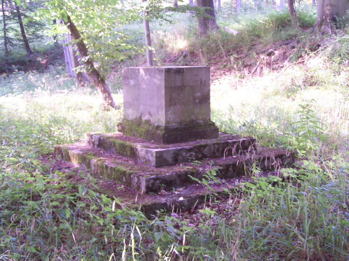 The ruine of Uetterodt memorial place at Schossberg hill near the bell-house building.